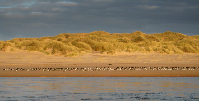 Roosting waders on the Sands of Forvie National Nature Reserve